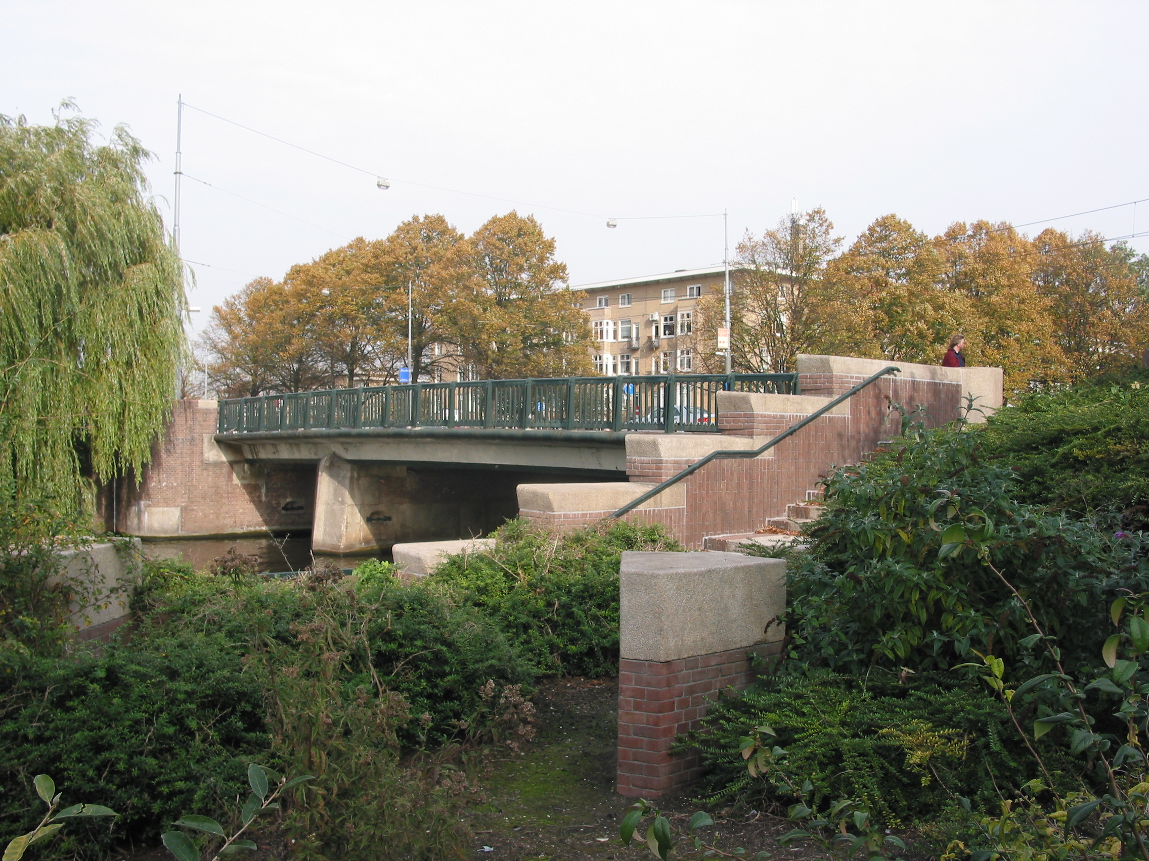 Piet Kramer (architect). Bridge 413 over the Zuider Amstelkanaal, Amsterdam. 1937.